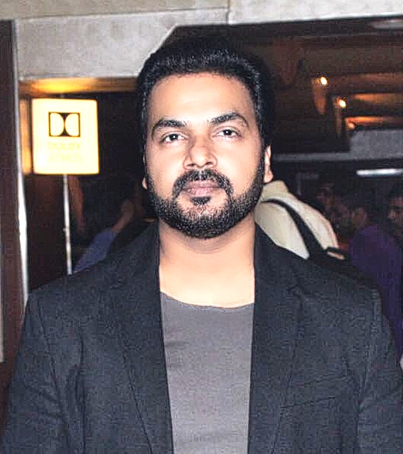 Pawan tiwari as actor/producer on launch of his film Alif